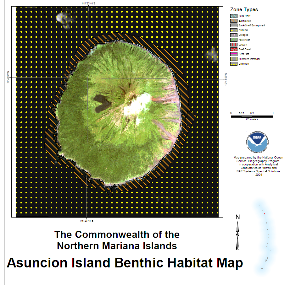 Benthic map of Asuncion Island a Stratovolcano in the Northern Marianas Islands.